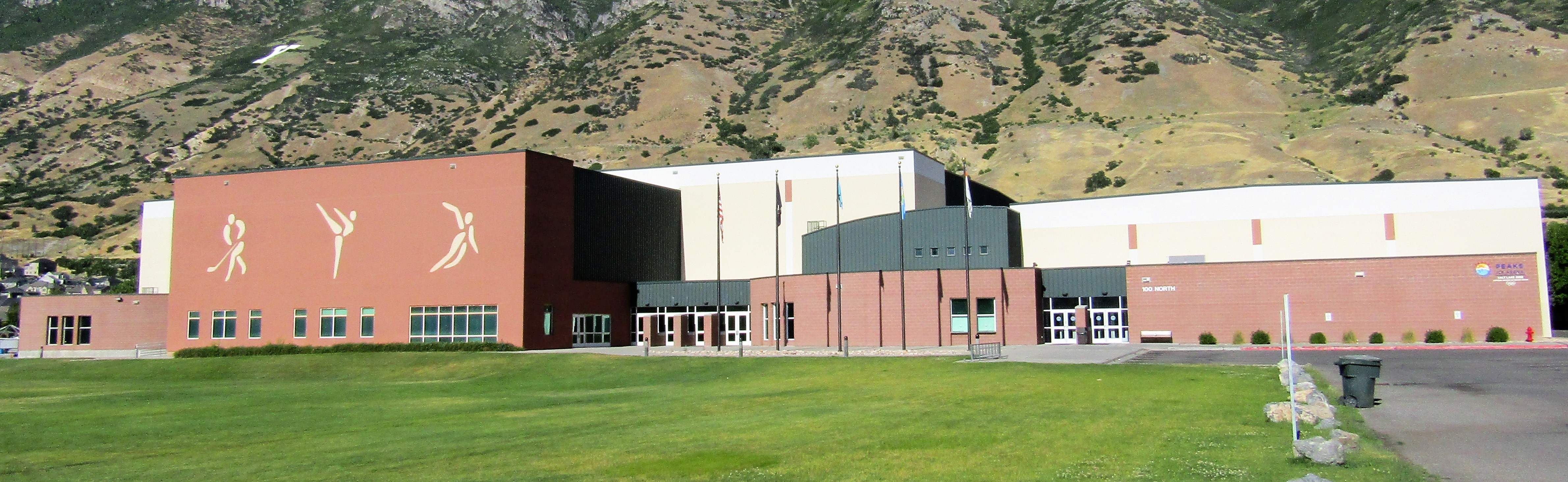 Recreation facility in Provo Utah